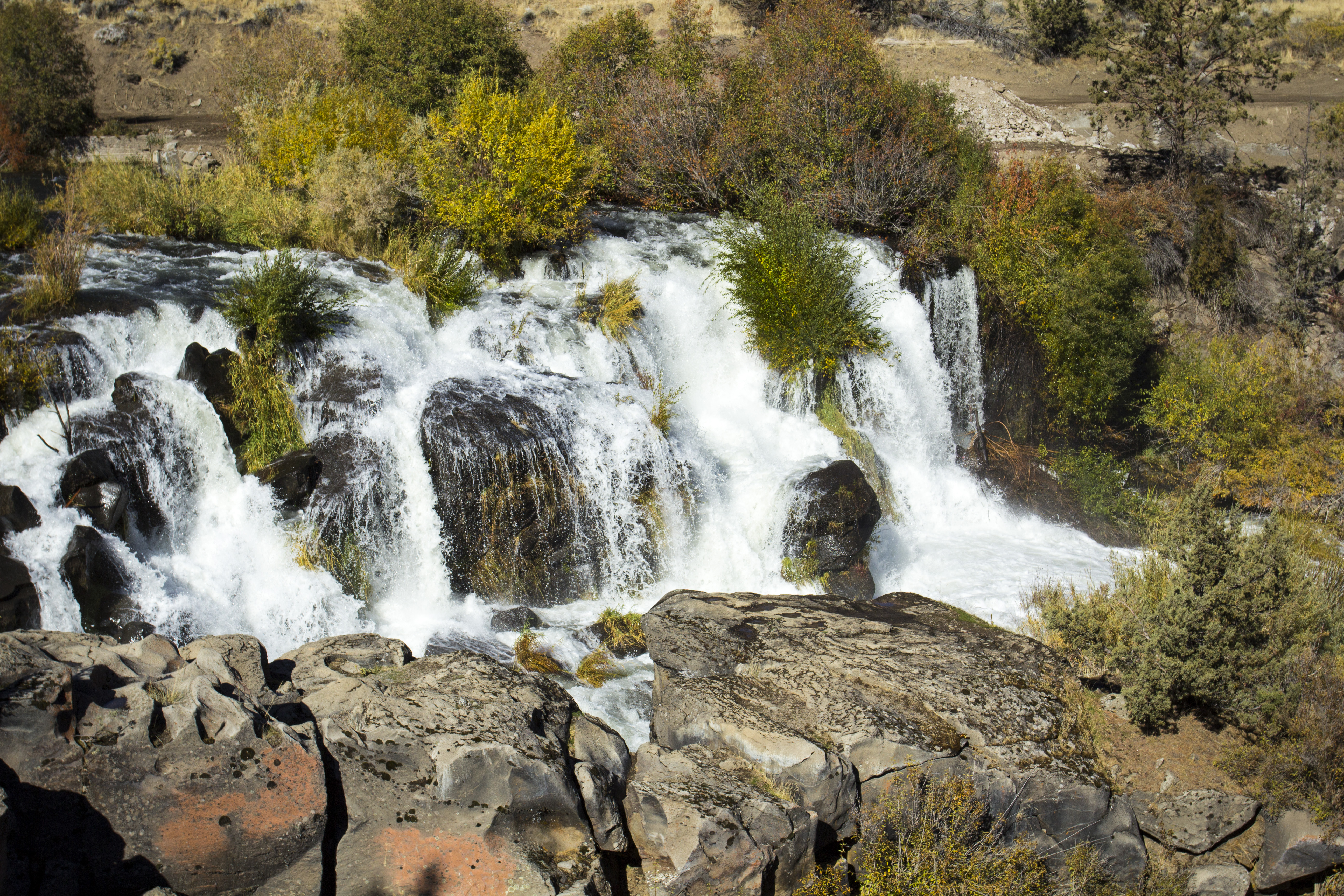 Cline Falls are located on Deschutes River in Central Oregon; near Redmond, Oregon